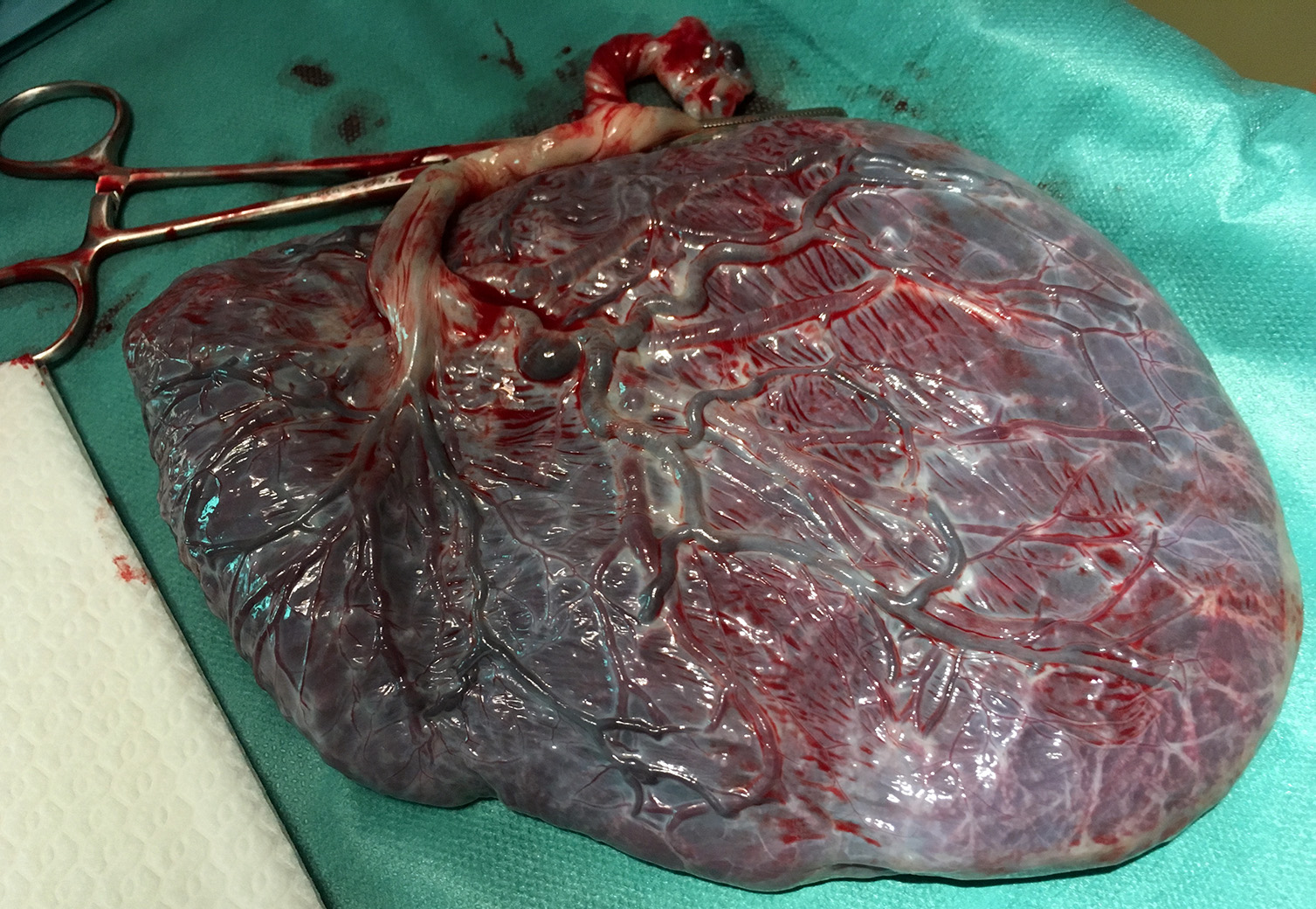 Placenta from a newborn still with the umbilical cord.